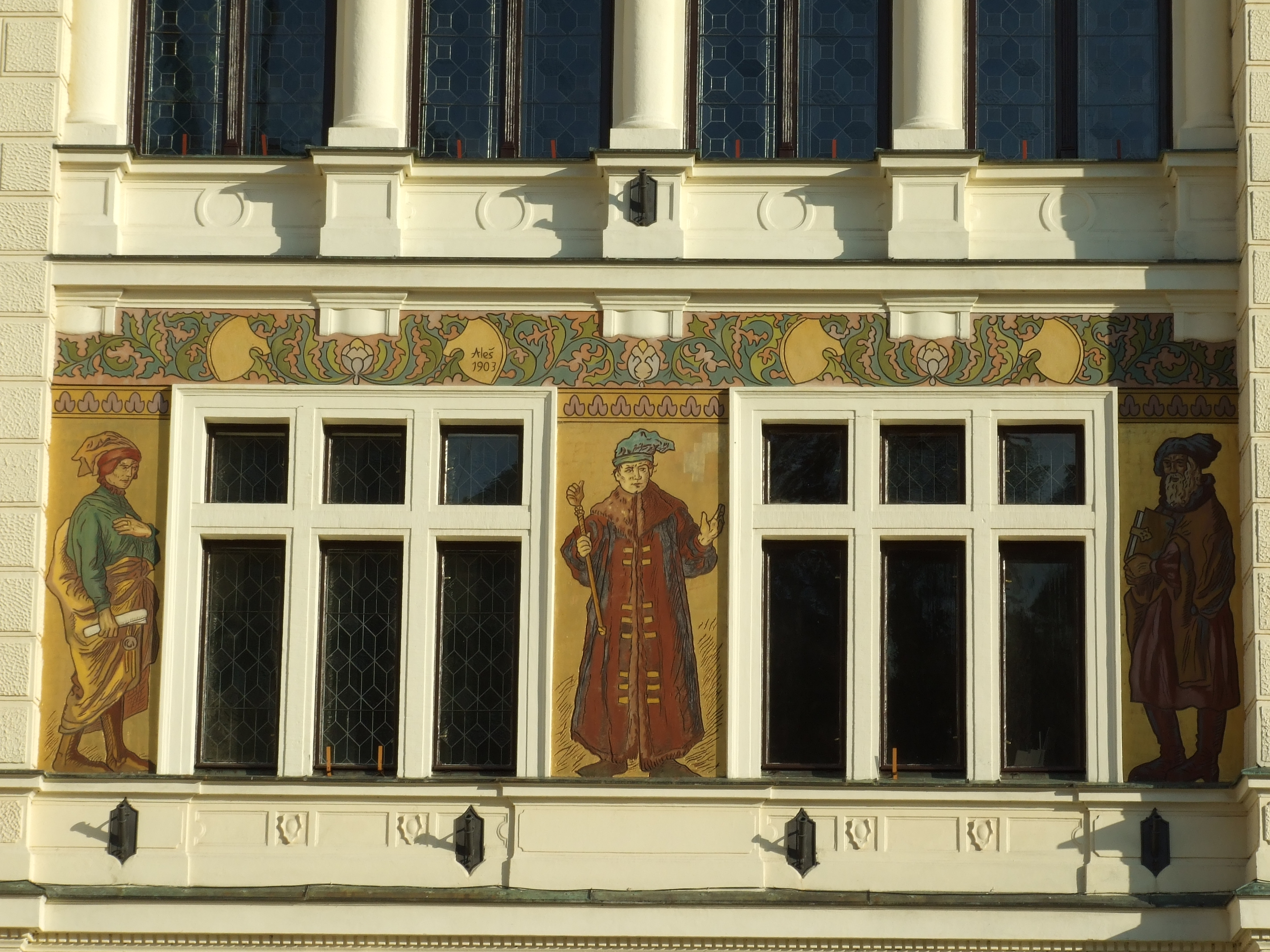 New townhall in Náchod